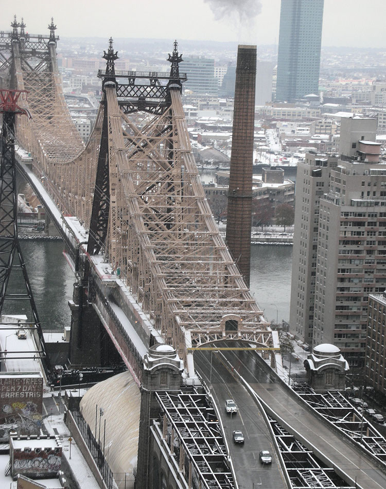 The Queensboro Bridge, also known as the 59th Street Bridge, in New York City. Photo by Kevin C. Fitzpatrick, Dec. 2, 2007. Green glass Citicorp Building in background right.